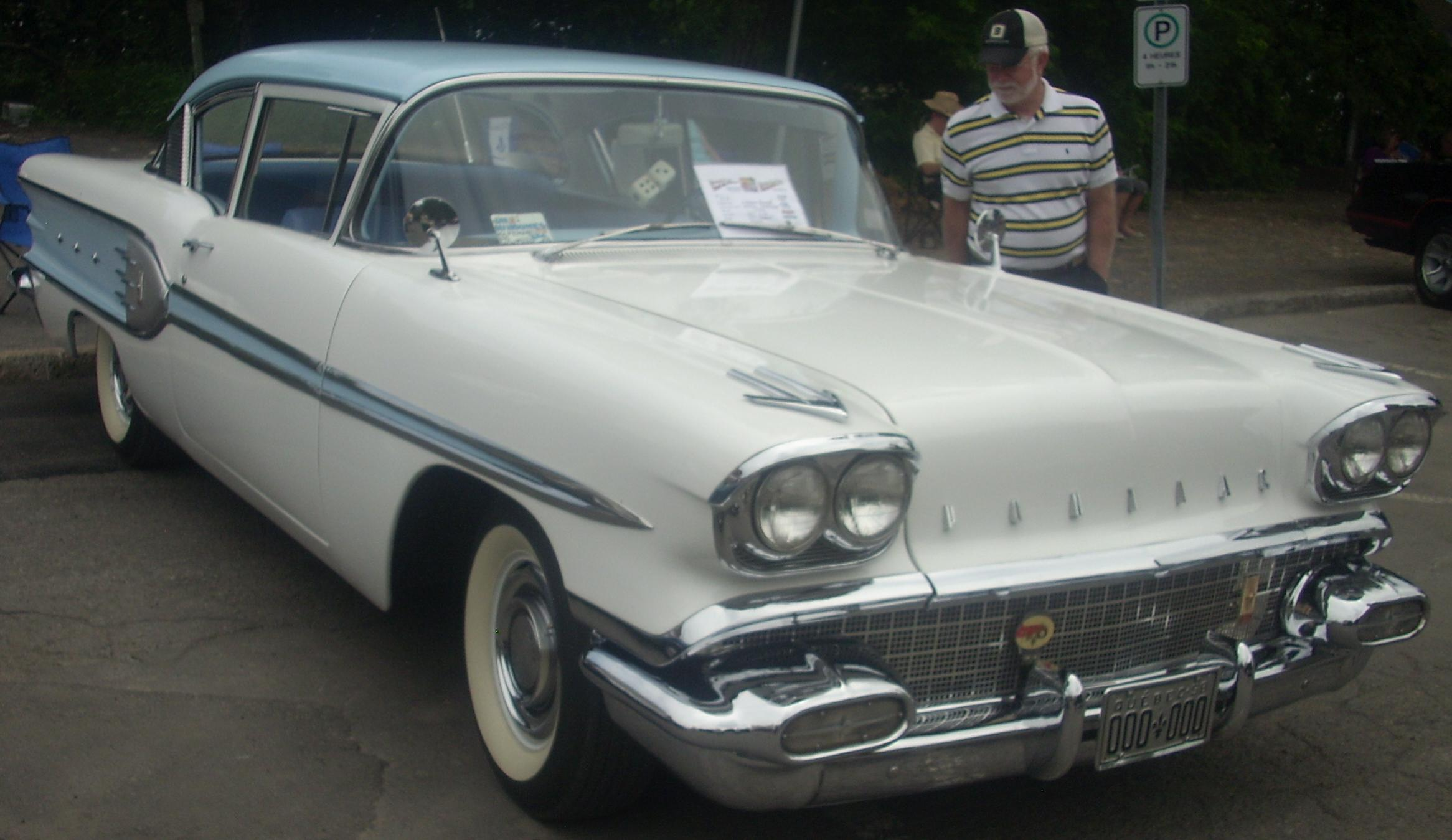 1958 Pontiac Pathfinder photographed in Ste. Anne De Bellevue, Quebec, Canada at Cruisin' At The Boardwalk 2010.